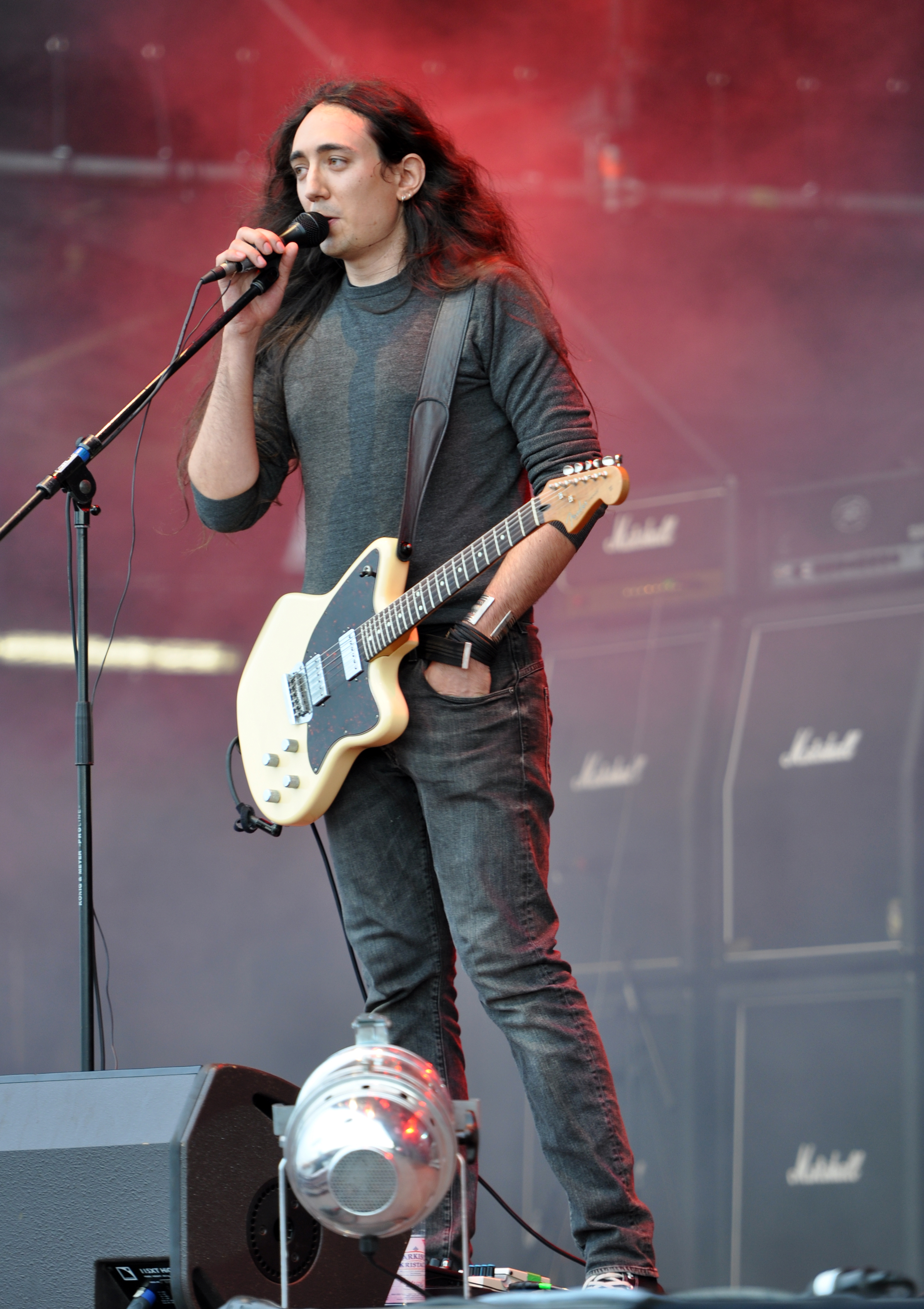 Alcest at Party.San Metal Open Air 2013